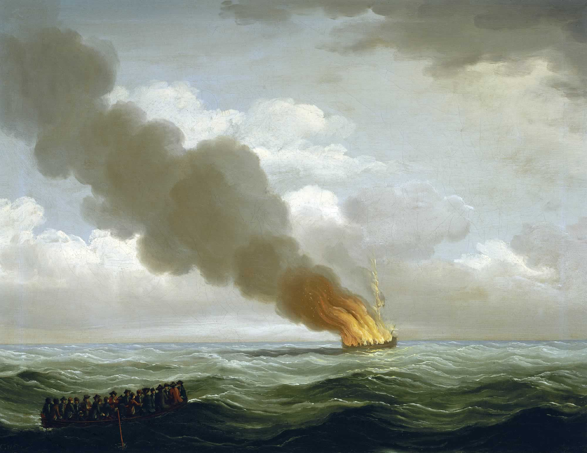 The 'Luxborough Galley' burnt nearly to the water, 25 June 1727